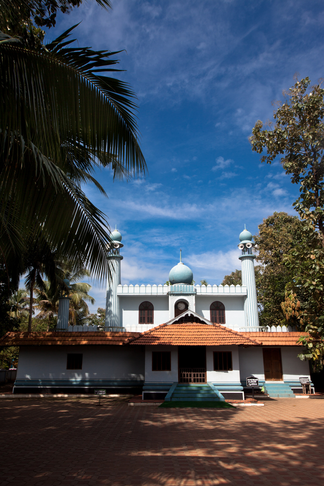 Cheraman Juma Masjid is a mosque in Methala, Kodungallur Taluk in the Indian state of Kerala.The Cheraman Masjid is said to be the very first mosque in India, built in 629 AD by Malik lbn Dinar.